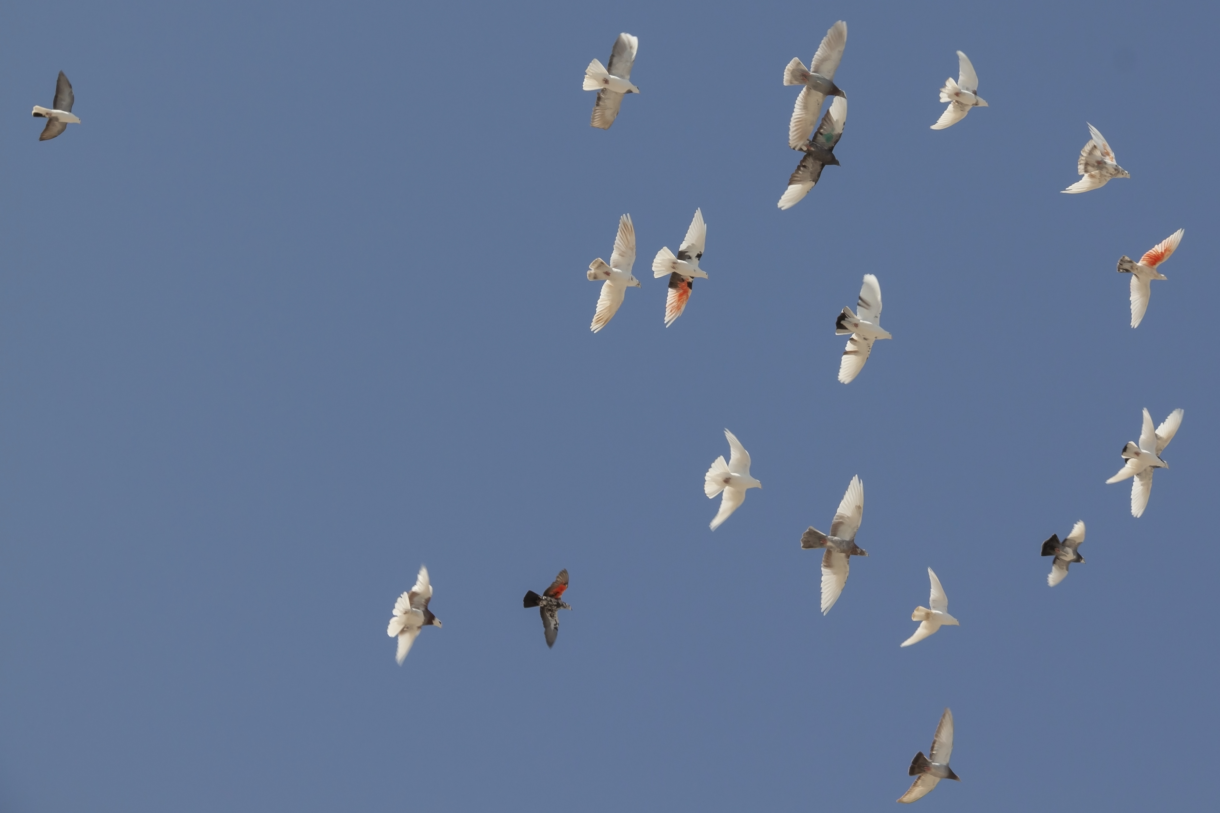 The wildlife of Iran include the fauna and flora of Iran.